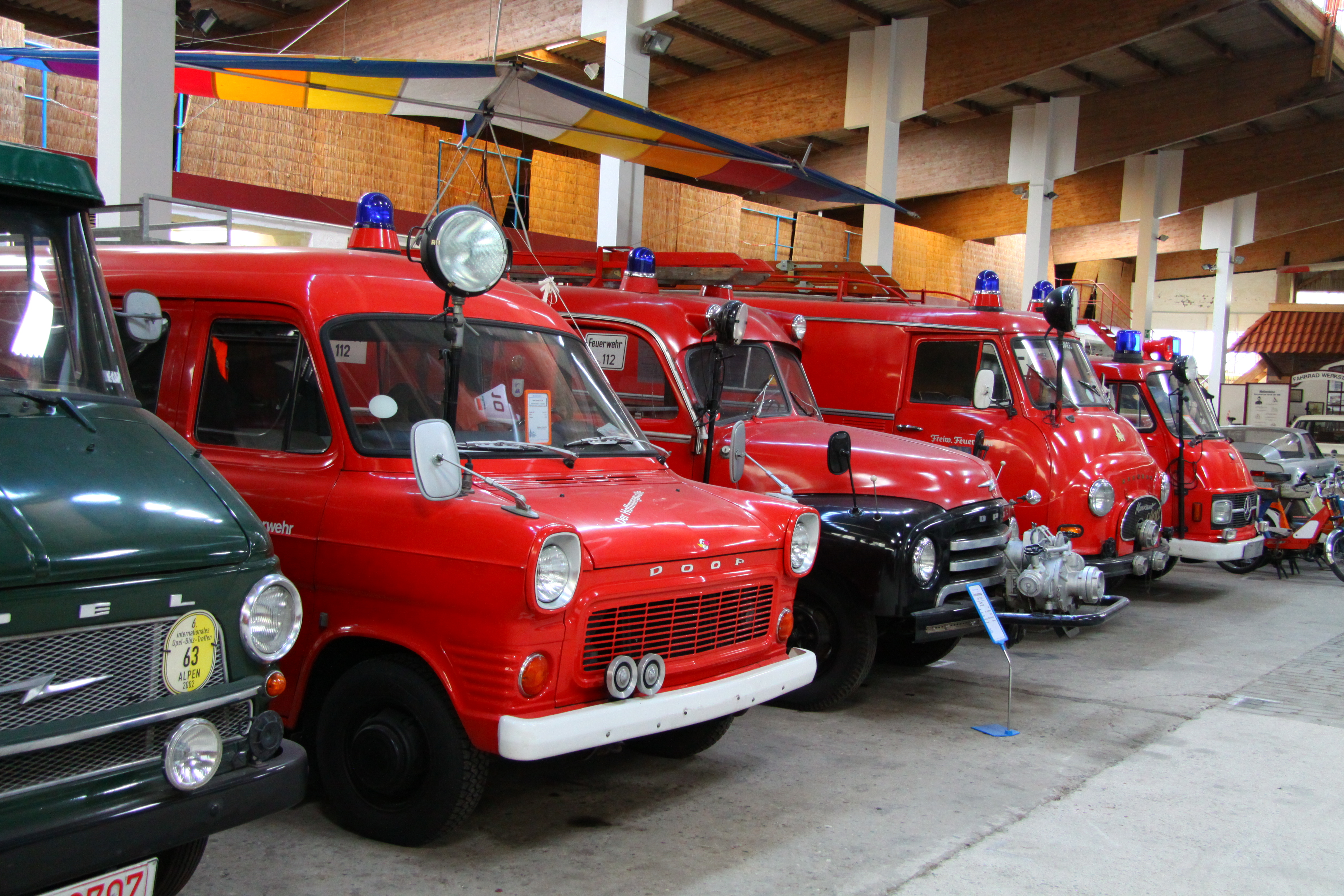 Historical fire engines at the TuVM Stade